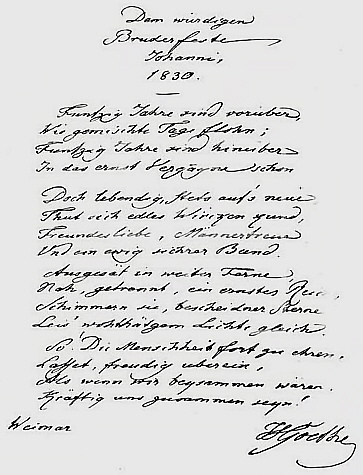 A copy of a letter from the year 1830: The acknowledgment from Johann Wolfgang von Goethe to his Motherlodge "Amalia" in Weimar (Germany), on the occasion of his 50-year fellowship in the freemasonry.